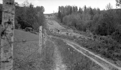 Workers carve Highway 17A out of the forest near Kaministiquia. It has since become Highway 102